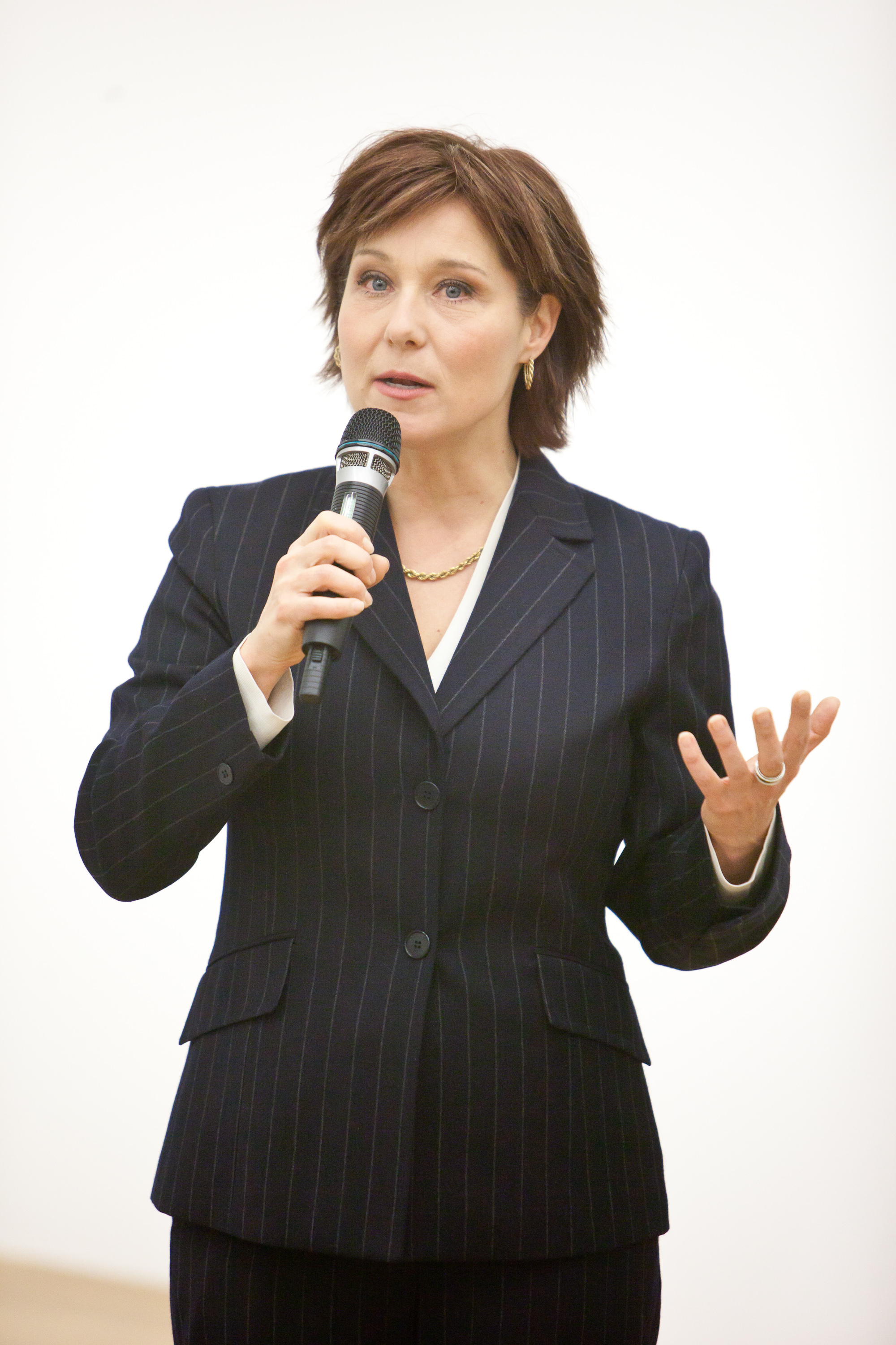 BC Liberal party leadership candidate Christy Clark addresses Vancouver arts & culture community at the Rennie Collection in the Wing Sang Building. Chinatown, Vancouver.